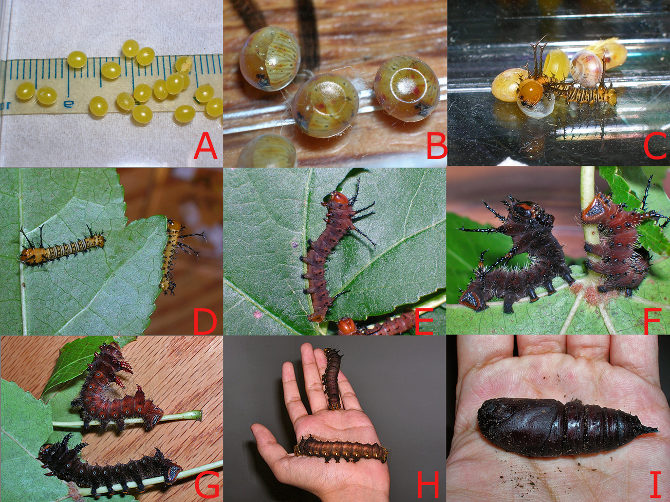 Larval development of the imperial moth (Eacles imperialis). Legend: A- Freshly laid eggs B- Eggs about to hatch C- Newly hatched, first instar caterpillar. Normally they turn around and eat their own egg shells when they hatch. D- older first-instar caterpillars. E- Second instar F- Third instar G- fourth instar H- Fifth instar I- Pupa. Eacles imperialis late fifth instar larvae go to the forest floor and burrow. They then pupate in the ground.